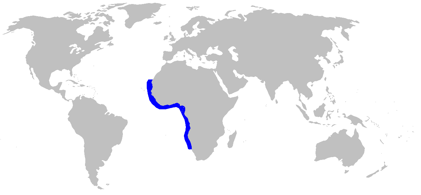 Distribution map for Galeus polli